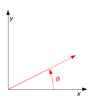 This image has been created to illustrate "rotation matrix" page It shows a rotation of angle theta in a plane oriented using the usual conventions (x to the right and y to the top)